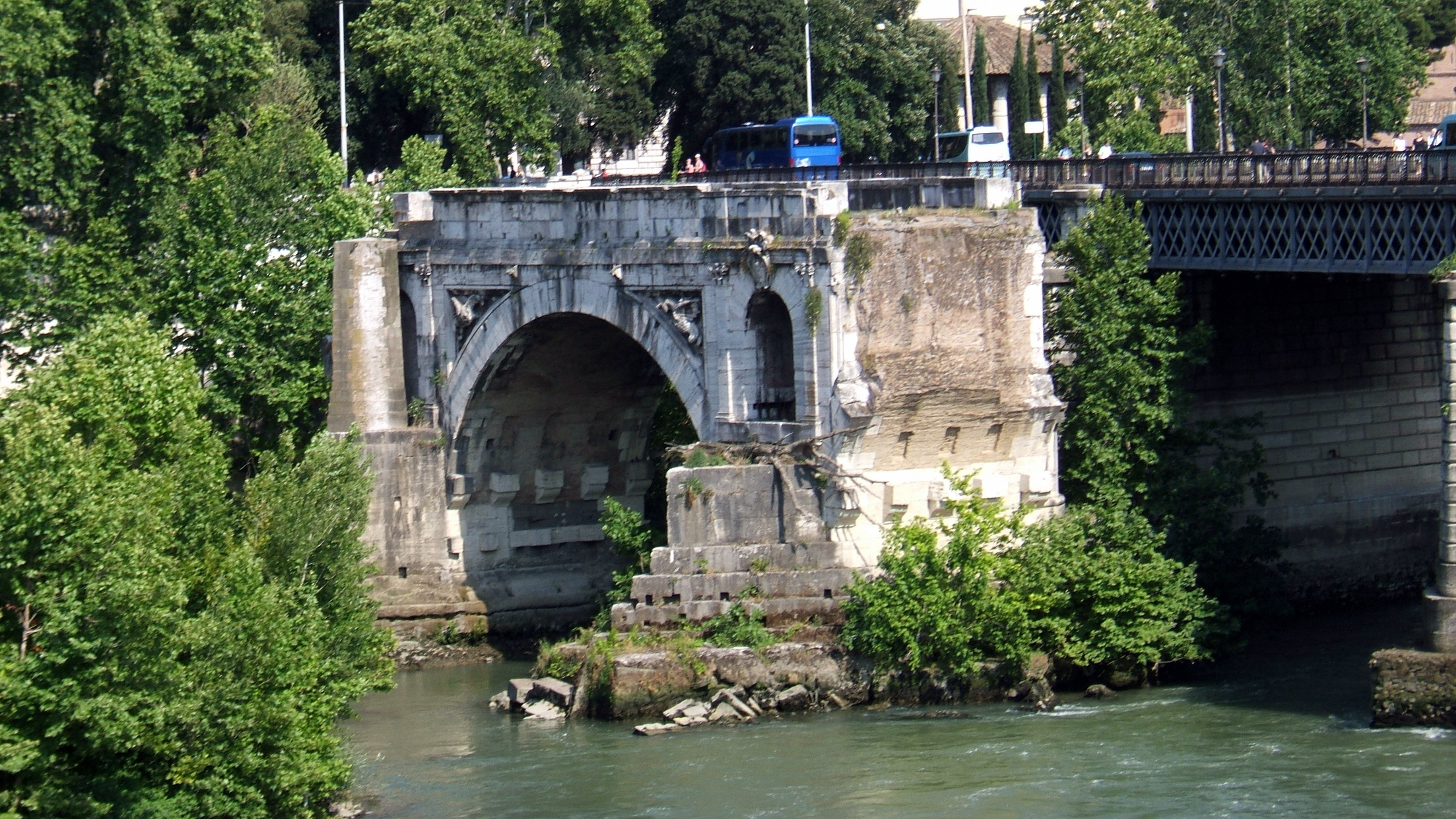 2007-06-09 in Rome